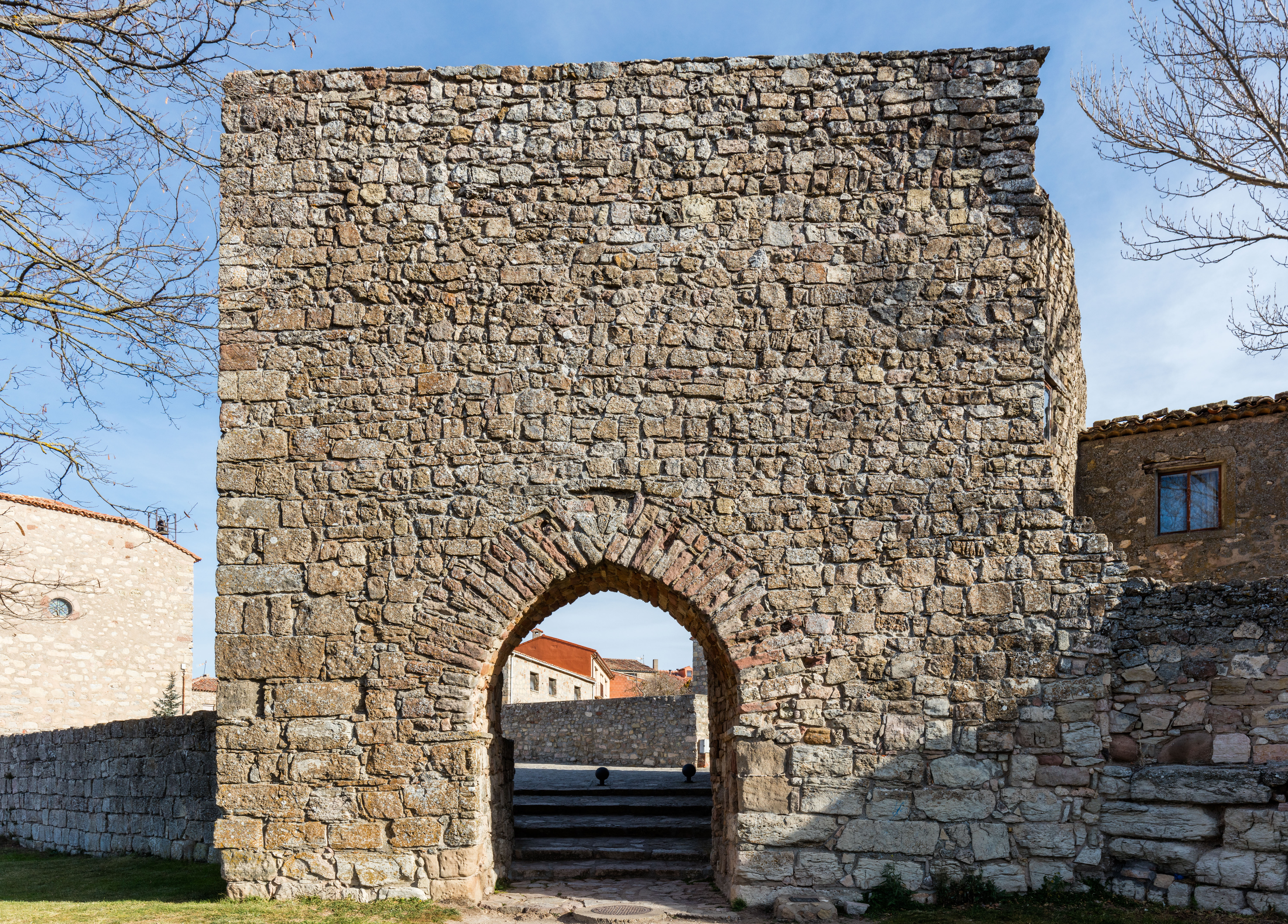 Arabic arch, Medinaceli, Soria, Spain